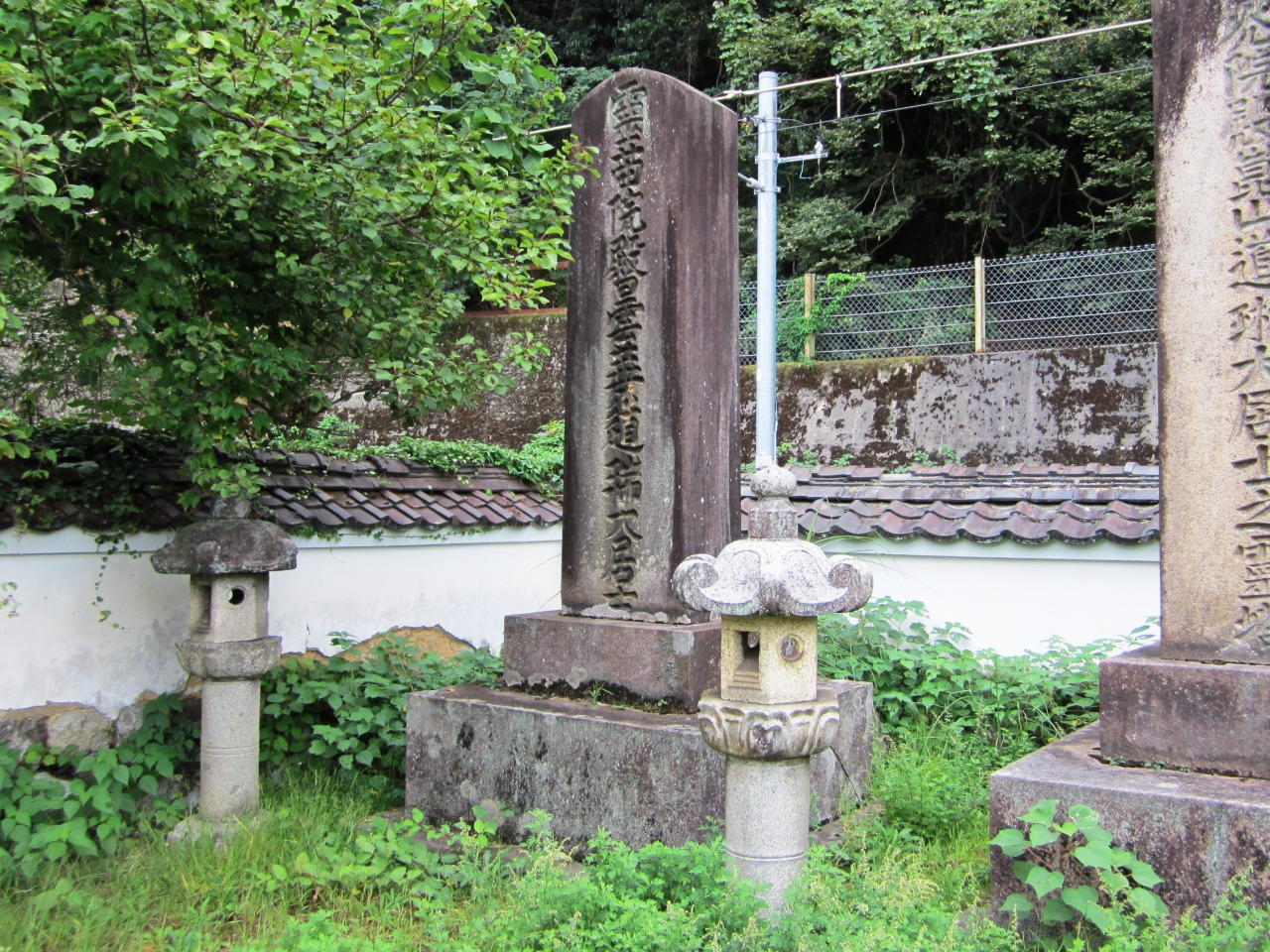 Sakai Tadaoto's grave at Kūin-ji in Obama, Fukui.